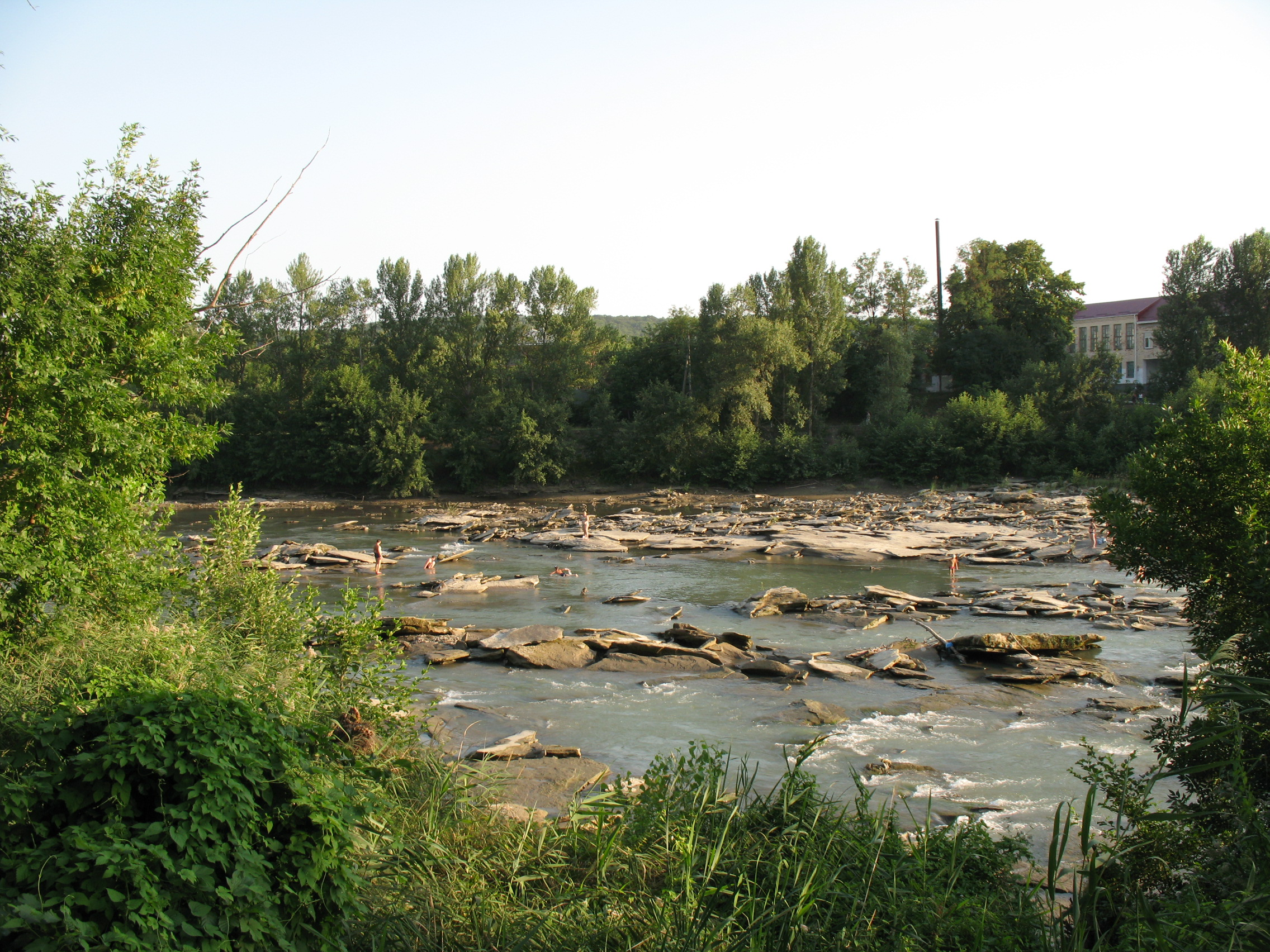 River Belaya in Maykop.